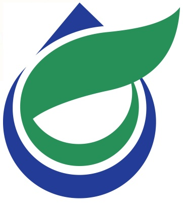 Kitahiroshima Hiroshima chapter